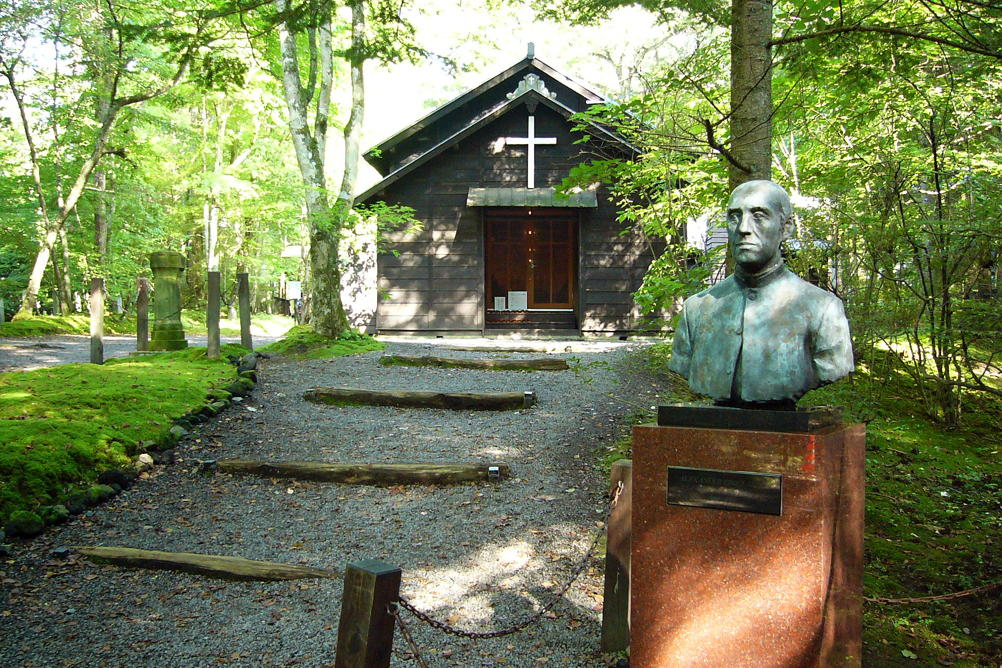 Shaw memorial chapel in Karuizawa, Nagano prefecture, Japan